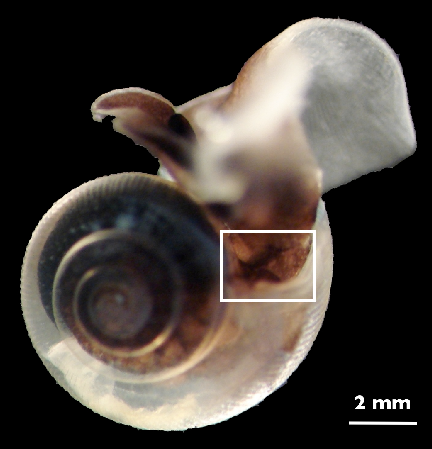 Photo of live Arctic Limacina helicina.